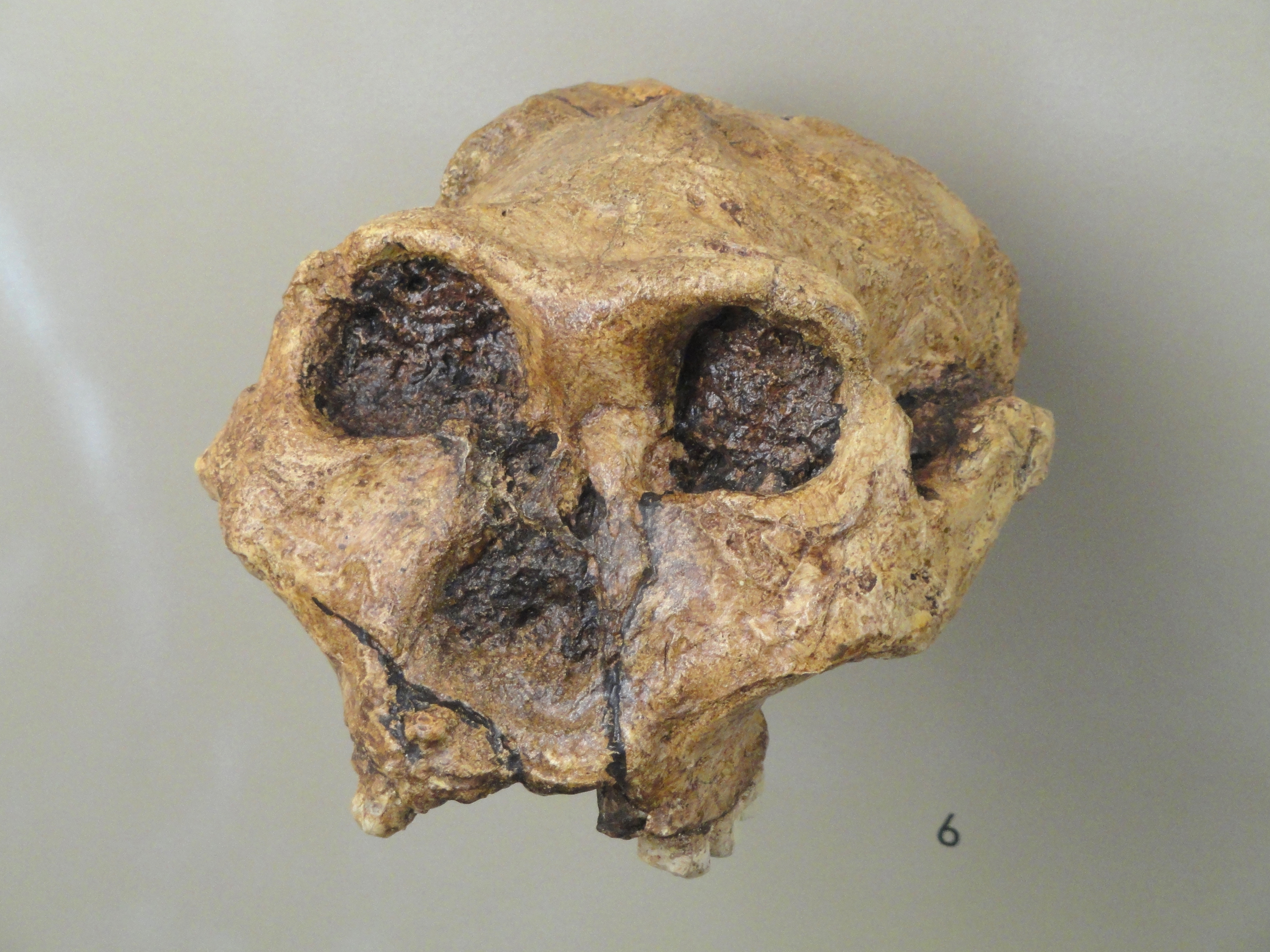 Australopithecus robustus. Exhibit in Naturmuseum Freiburg, Freiburg im Breisgau, Baden-Württemberg, Germany.